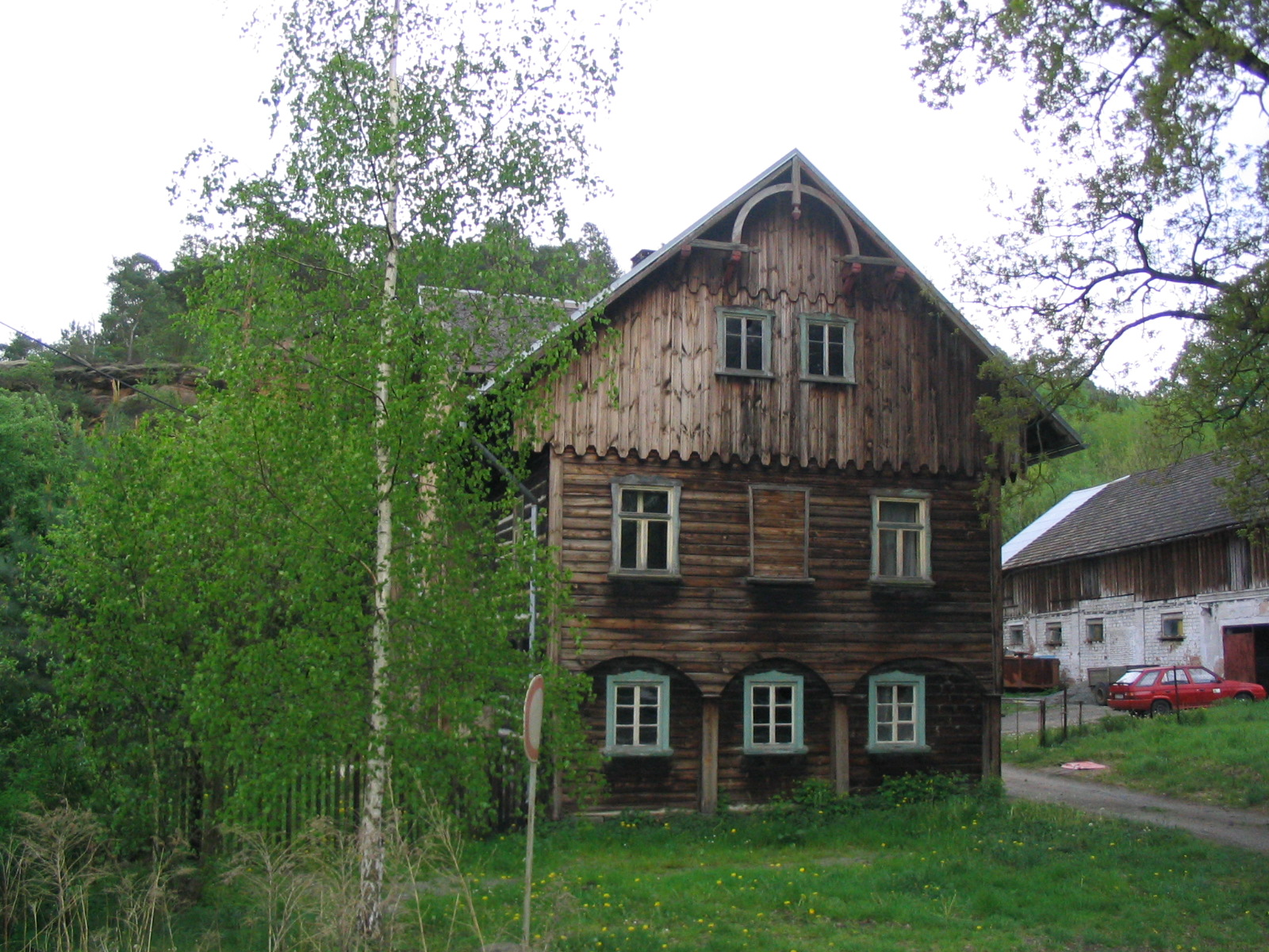 rural architecture in Noviny pod Ralskem, Czech Republic